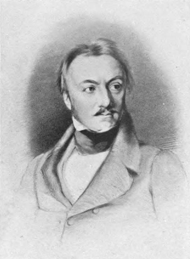 Henry Pottinger Bart